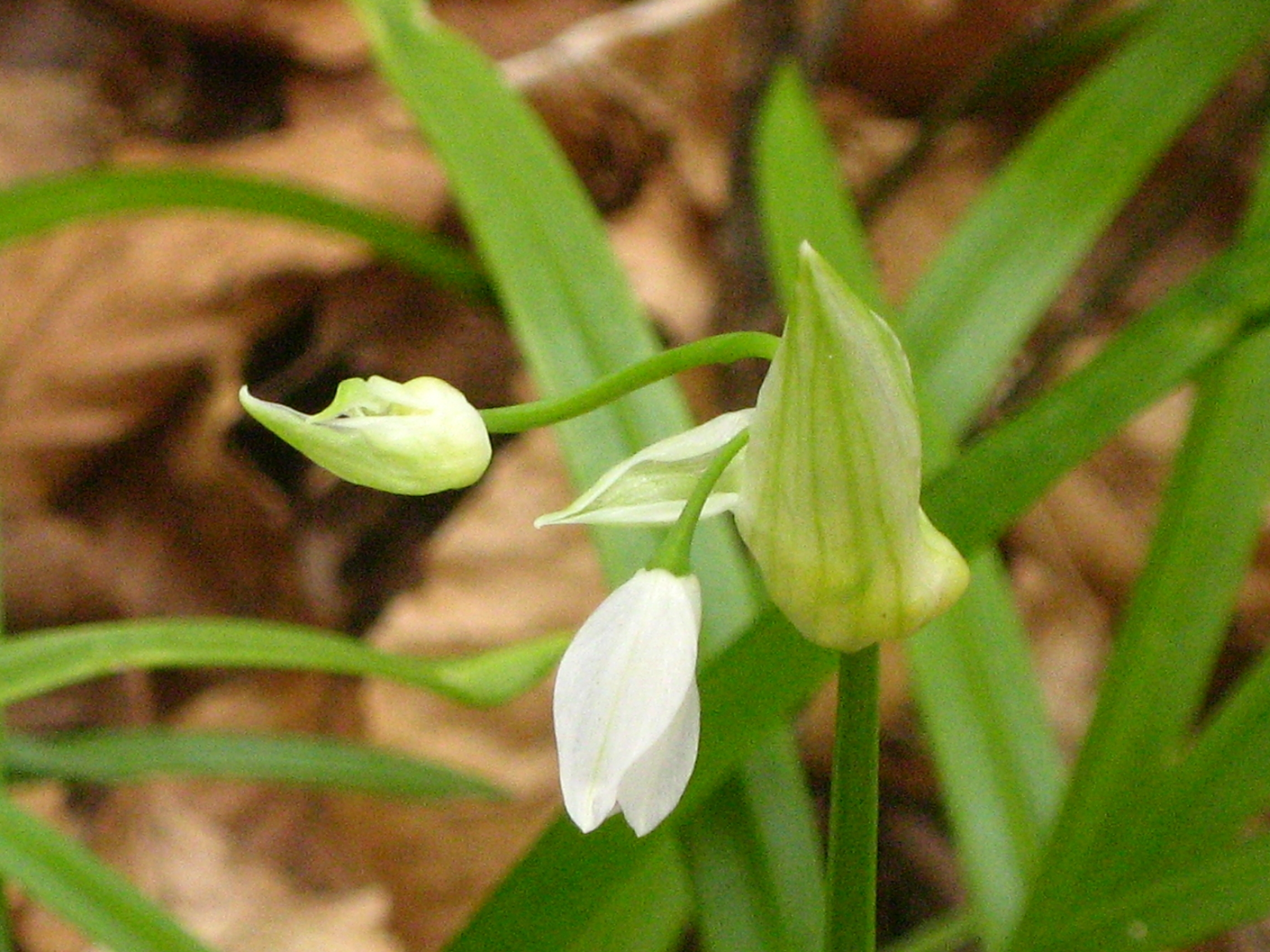 Allium paradoxum (in the forest on the Lake Stechlinsee in the Brandenburg district, Germany).